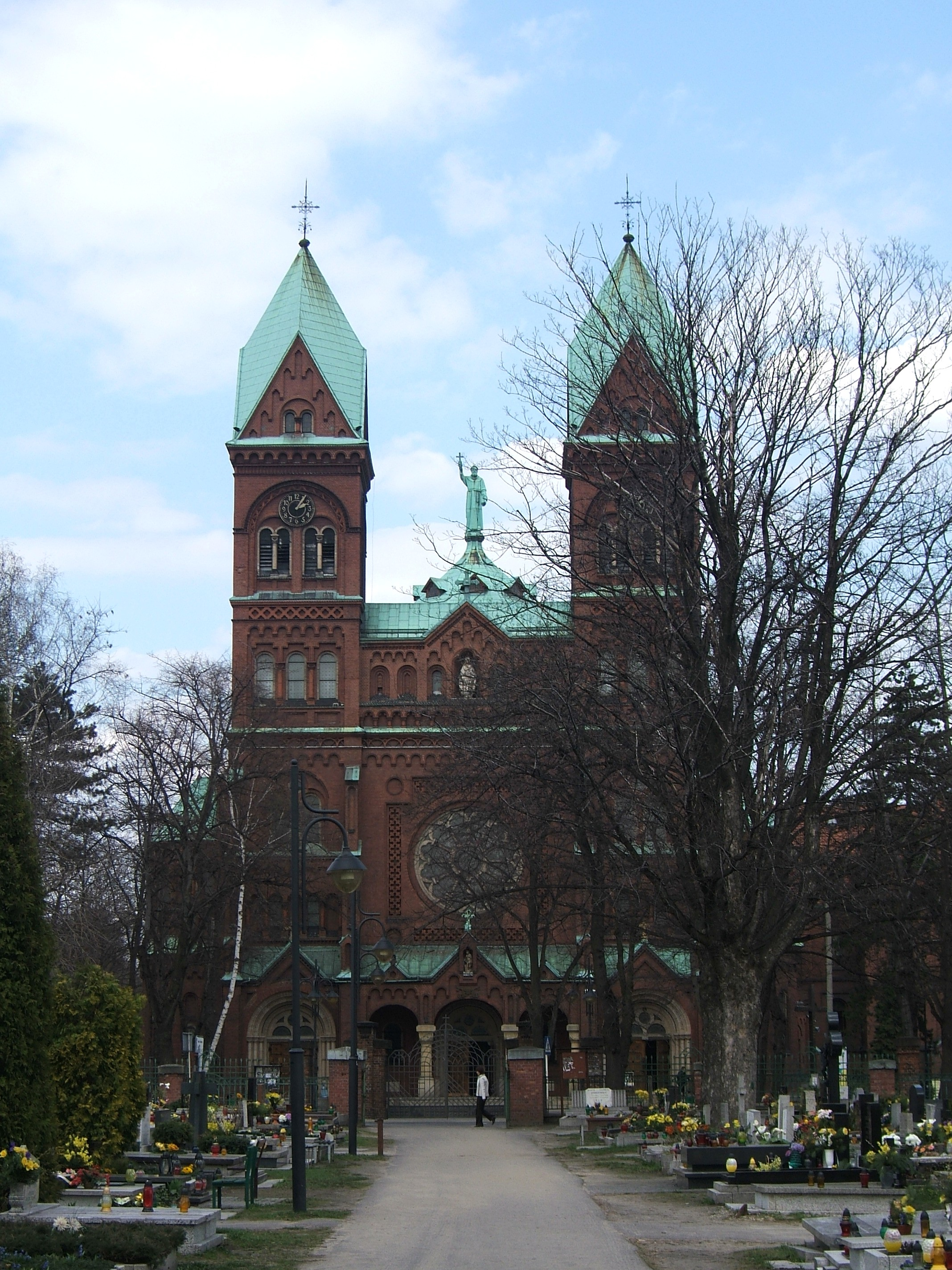 The Franciscan monastery's basilica in Panewniki (1903-1908), a district of Katowice